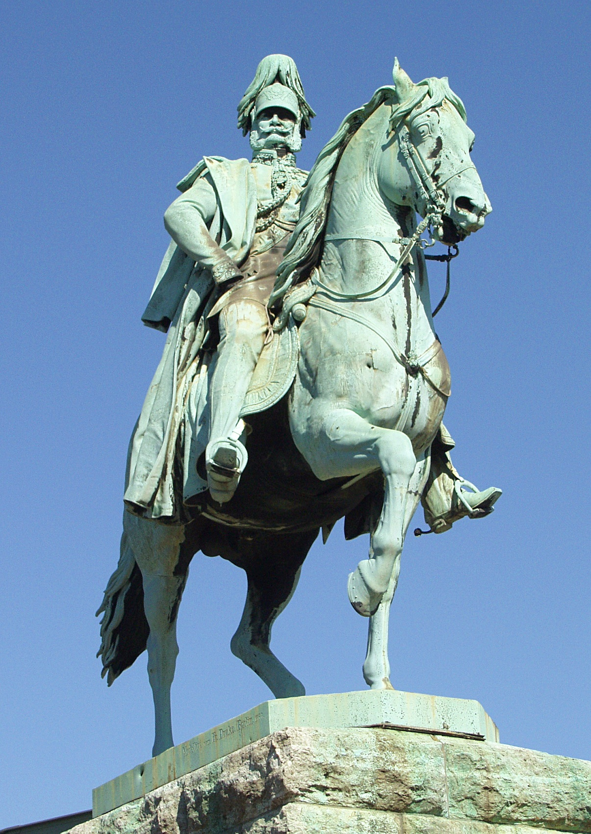 Statue of Wilhelm I of Germany at the "Hohenzollernbrücke" in Cologne, Germany. Sculpted by Friedrich Drake This is a photograph of an architectural monument.